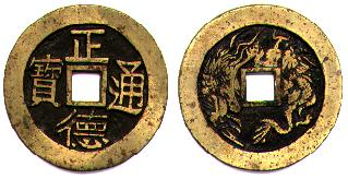 53 mm Obv. Cheng Te T'ung Pao Coinage of True Virtue Rev. Left - phoenix, right - dragon Meaning: A dragon and a phoenix are the emblems of imperial power [S] Ref.: [M] 1.83.18 Section 1.83: "Charms with coin inscriptions: Cheng Te T'ung Pao" Cheng Te T'ung Pao Dynasty: Ming (1368-1644 a.d.) Emperor: Wu Tsung (1505-1521 a.d.) Years title: Cheng Te (1505-1521 a.d.) "The legend of this coin is a favorite to use as an amulete and many of these coins will be found with ornamental rims and reverses decorated with dragons and other designs." [CR] In [M] book we can find 41 items with that coin legend. [S] "The dragon occupies a prominent place in Chinese mythology; he sends rain and floods, and is the ruler of the clouds. The phoenix is an emblem of matrimonial alliances, etc."